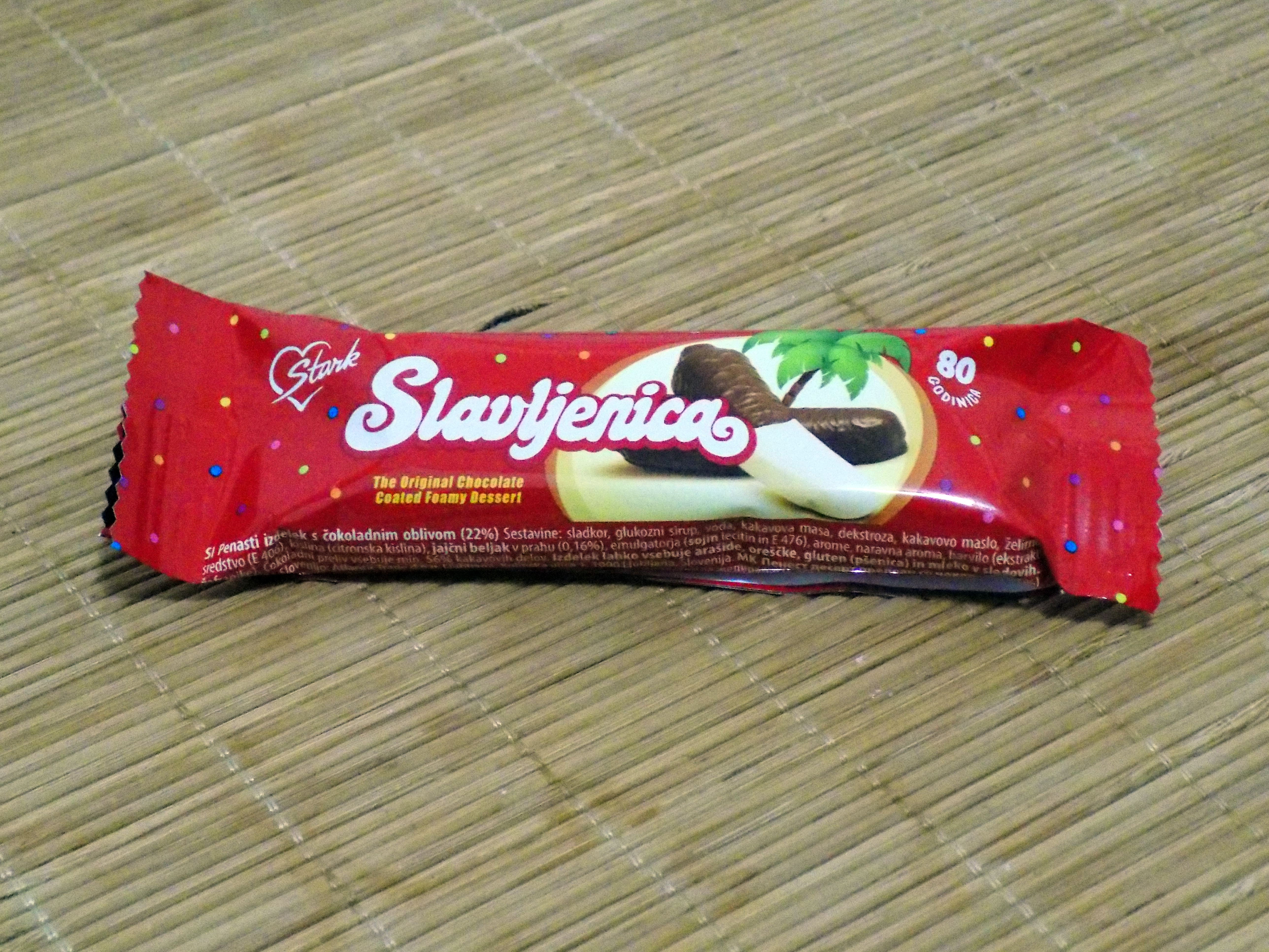 "Bananica" (Cream banana), Serbian brand since 1938.